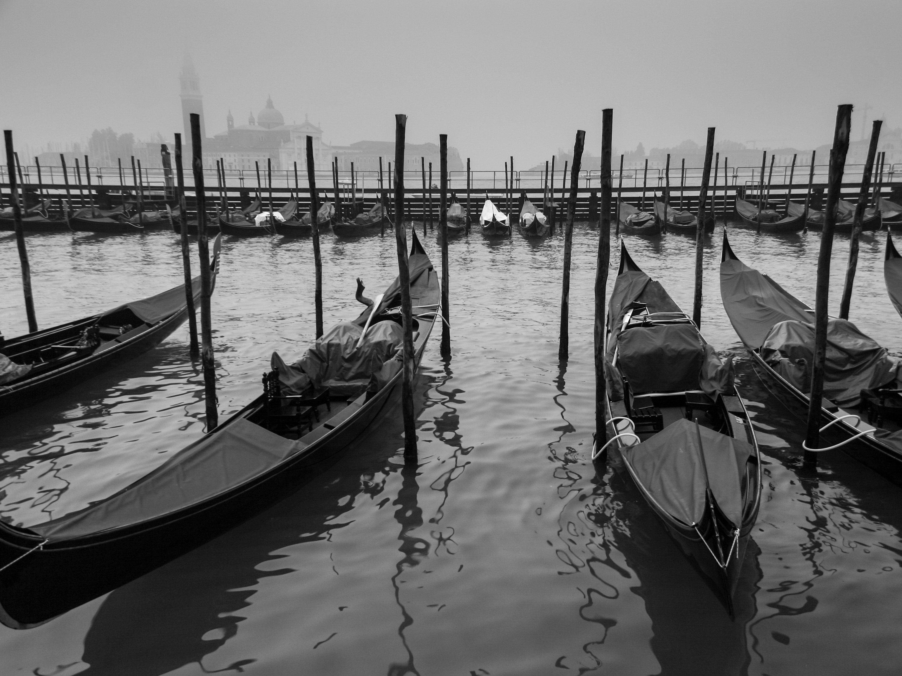 Gondola Mooring A photo by Shaun Bowden kindly released by his widow